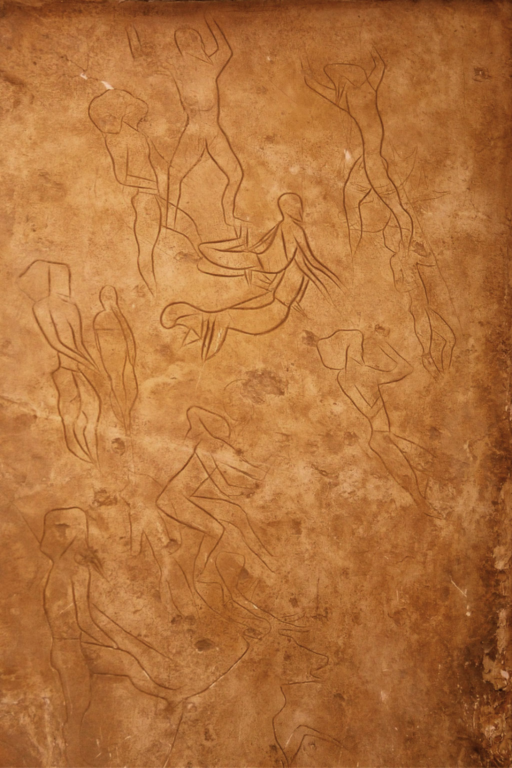 Museo Regionale Archeologico, Palermo Replica of the paleolithical drawings in the cave of Addaura, shown in the Museo Regionale Archeologico in Palermo.